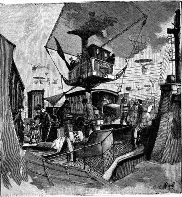 evacuation by air train